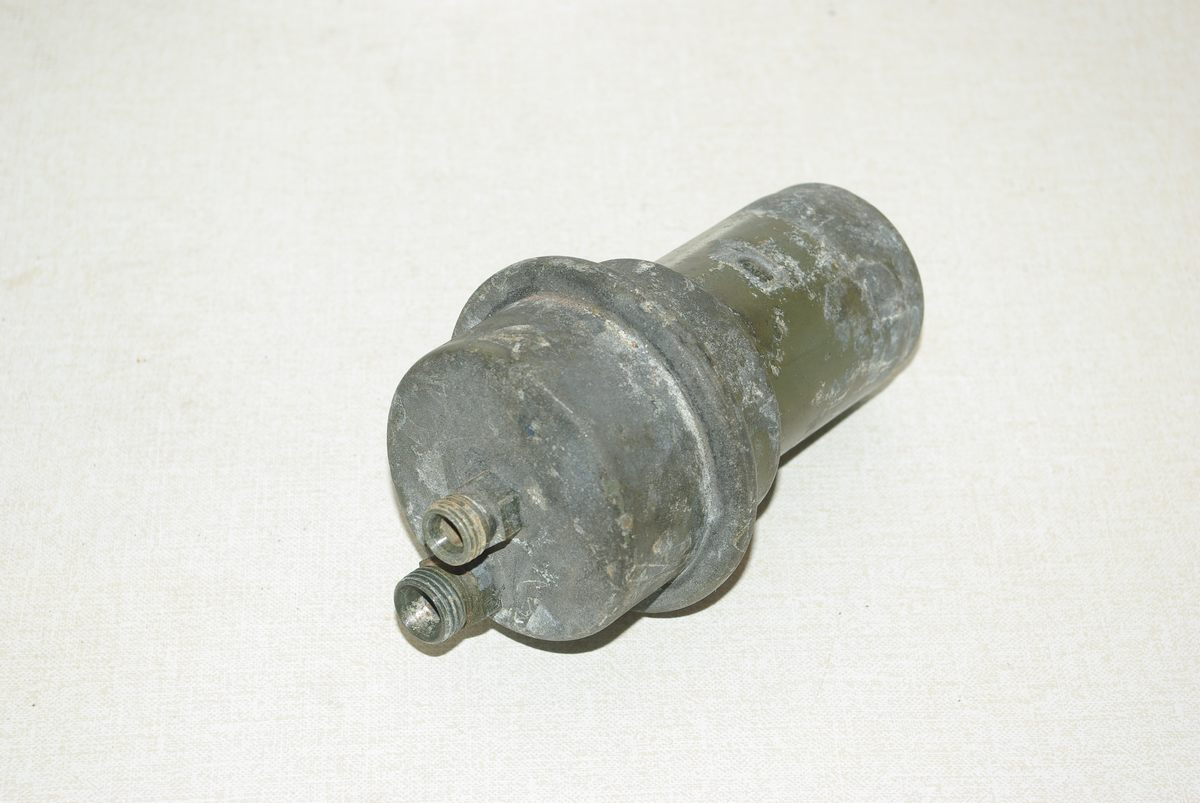 K-Jetronic fuel accumulator